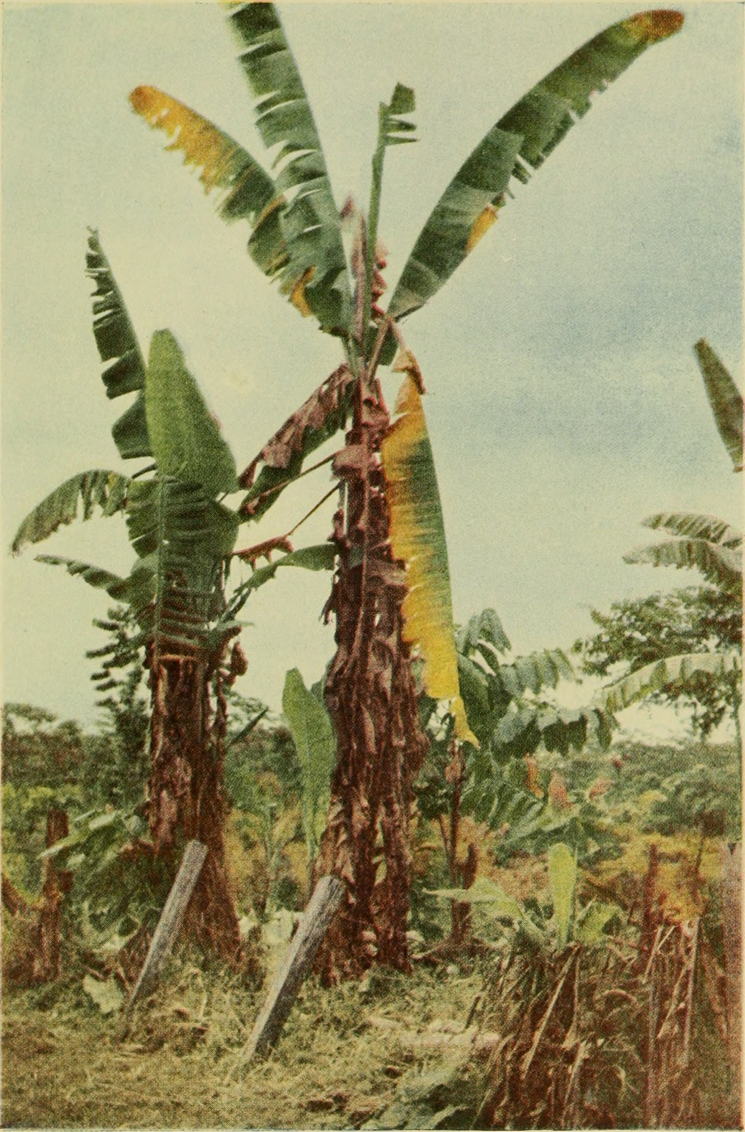 Title: Banana wilt Year: 1919 (1910s) Authors: Brandes, Elmer Walker, 1891- (from old catalog) Subjects: Fusarium wilt of banana Publisher: (Baltimore Text Appearing Before Image: PHYTOPATHOLOGY, IX PLATE XXI Text Appearing After Image: Brandes: Banana Wilt A banana plant of the Gros Michel variety in Costa Rica attacked by the wilt organism.